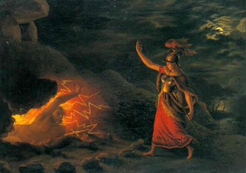 Hervör wakes her father Angantýr's ghost from his barrow to demand the cursed sword Tyrfing; illustration of the saga poem Hervararkviða.